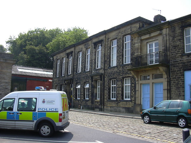 Bacup Police Station BBC filmed Juliet Bravo here in the late 70s and early 80s (correction; Juliet Bravo ran from the early to mid 1980s) Market Hall is on left. The police station has since closed.